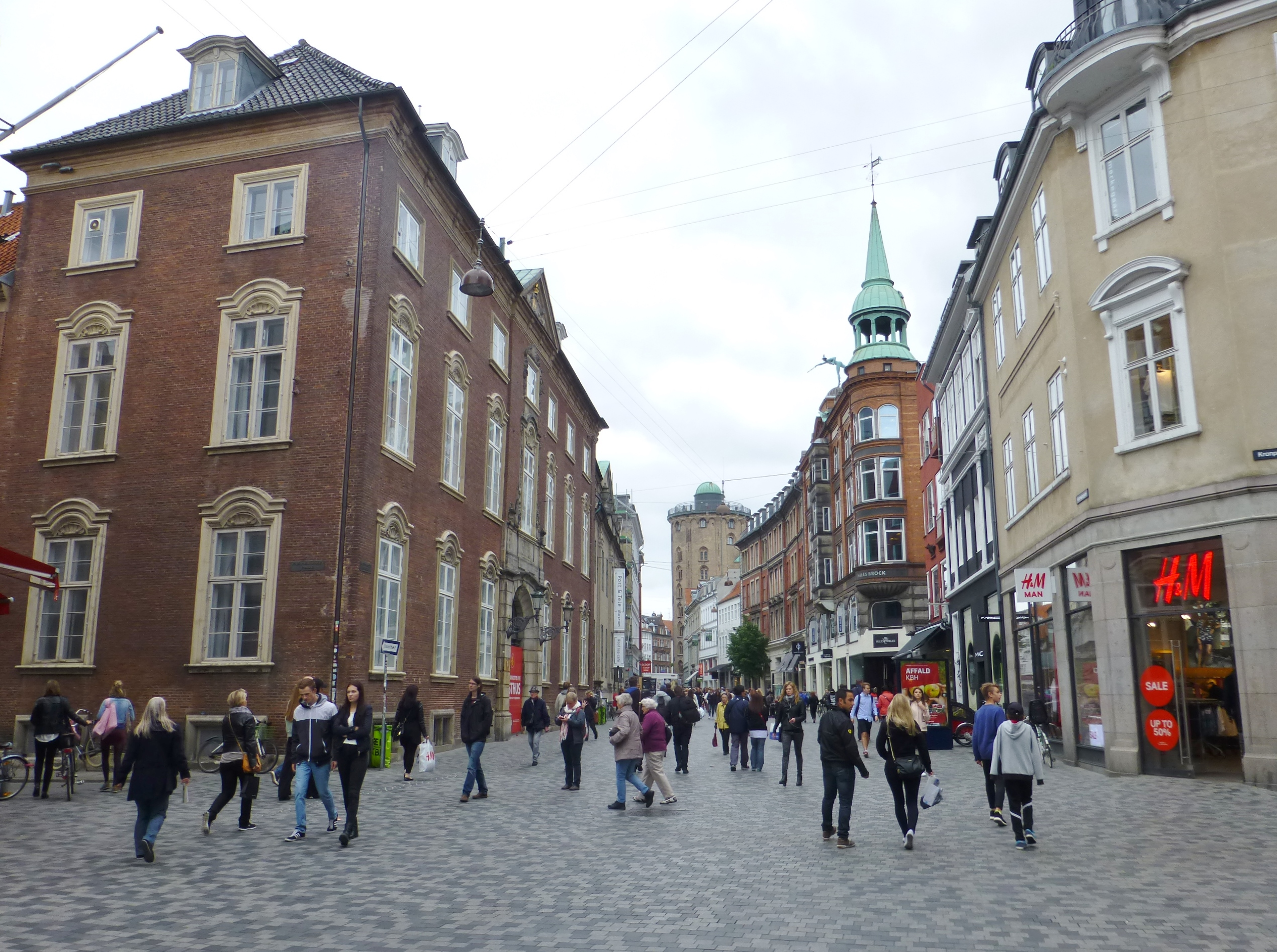 The street Købmagergade at Valkendorfsgade in Indre By in Copenhagen. In the background Rundetårn (the round tower).